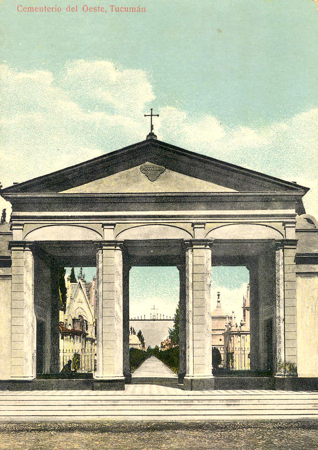 Facade of West Cemetery of San Miguel de Tucumán, Argentina, ca 1910. before its restoration in 1922.